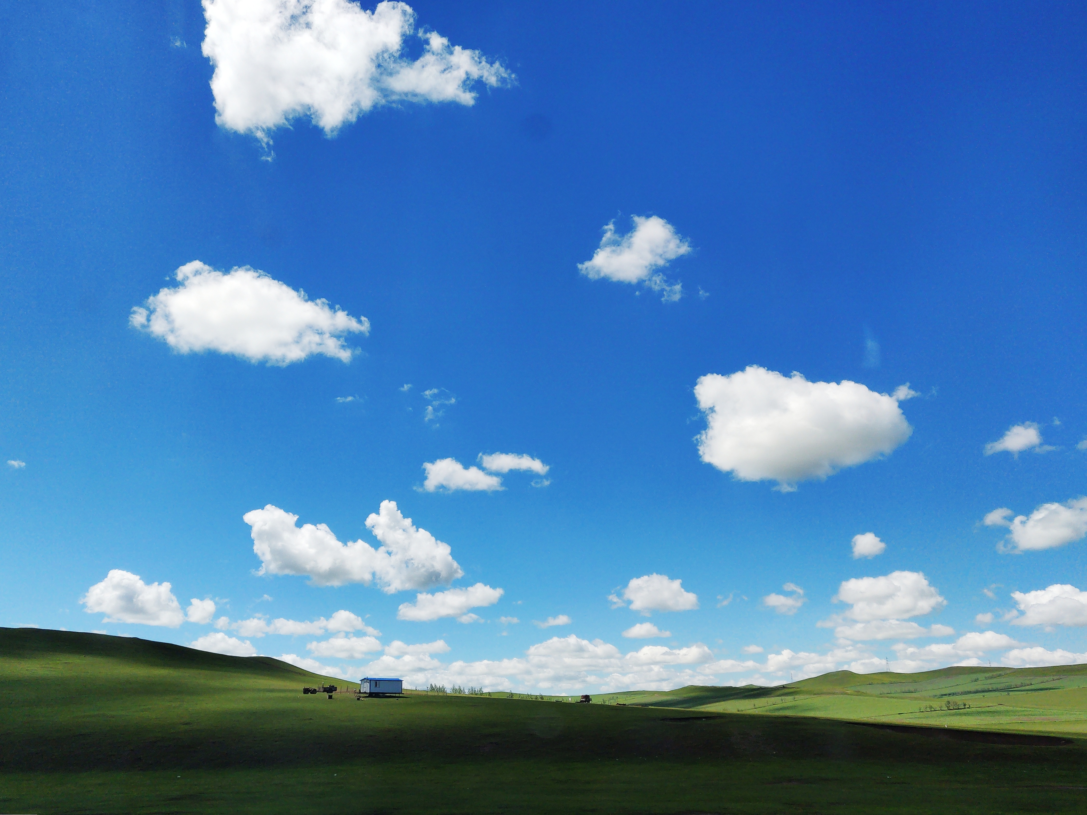 This is the grassland in Hulun Buir